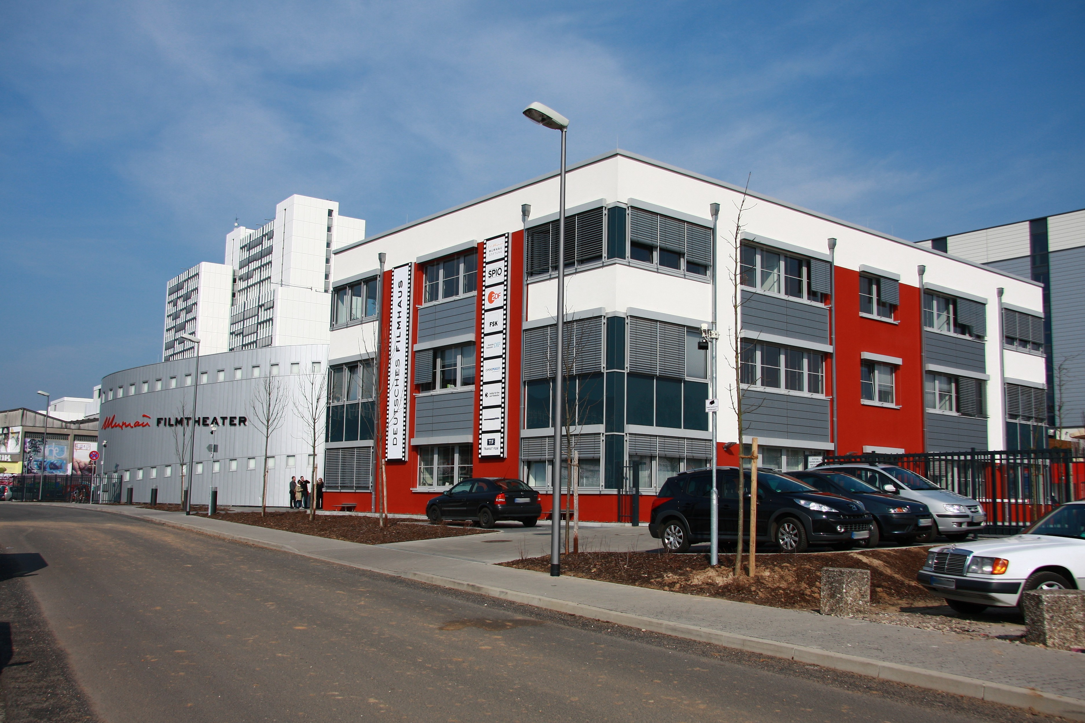 Das building of the Friedrich-Wilhelm-Murnau foundation in Wiesbaden, in which the Freiwillige Selbstkontrolle der Filmwirtschaft is located